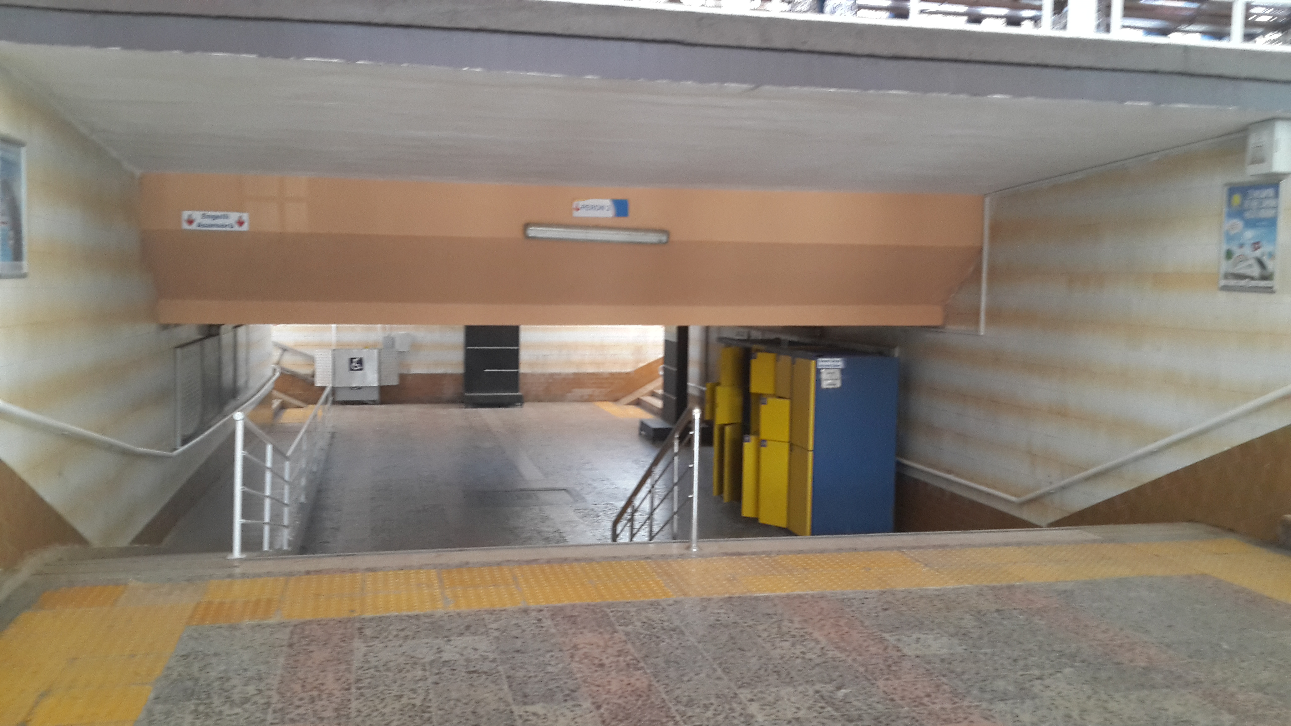 Lockers at the Adana Central railway station